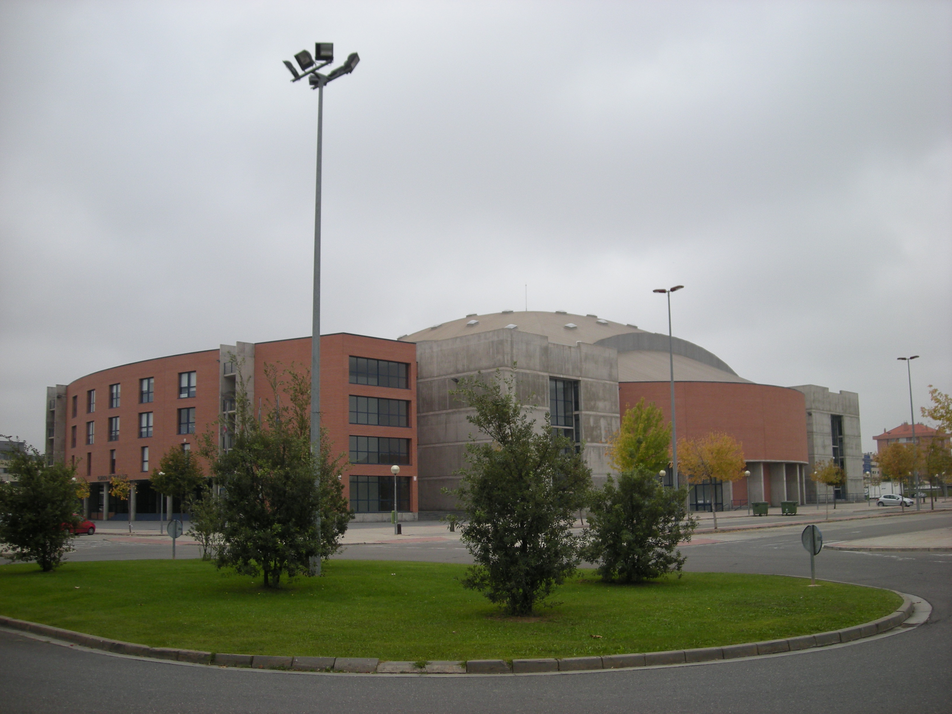 Exterior of the La Rioja Sports Palace in Logroñoo (Spain).